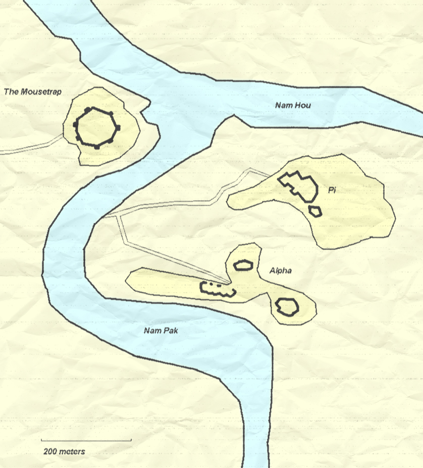 Map of the position during the Battle of Muong Khoua, 1953.